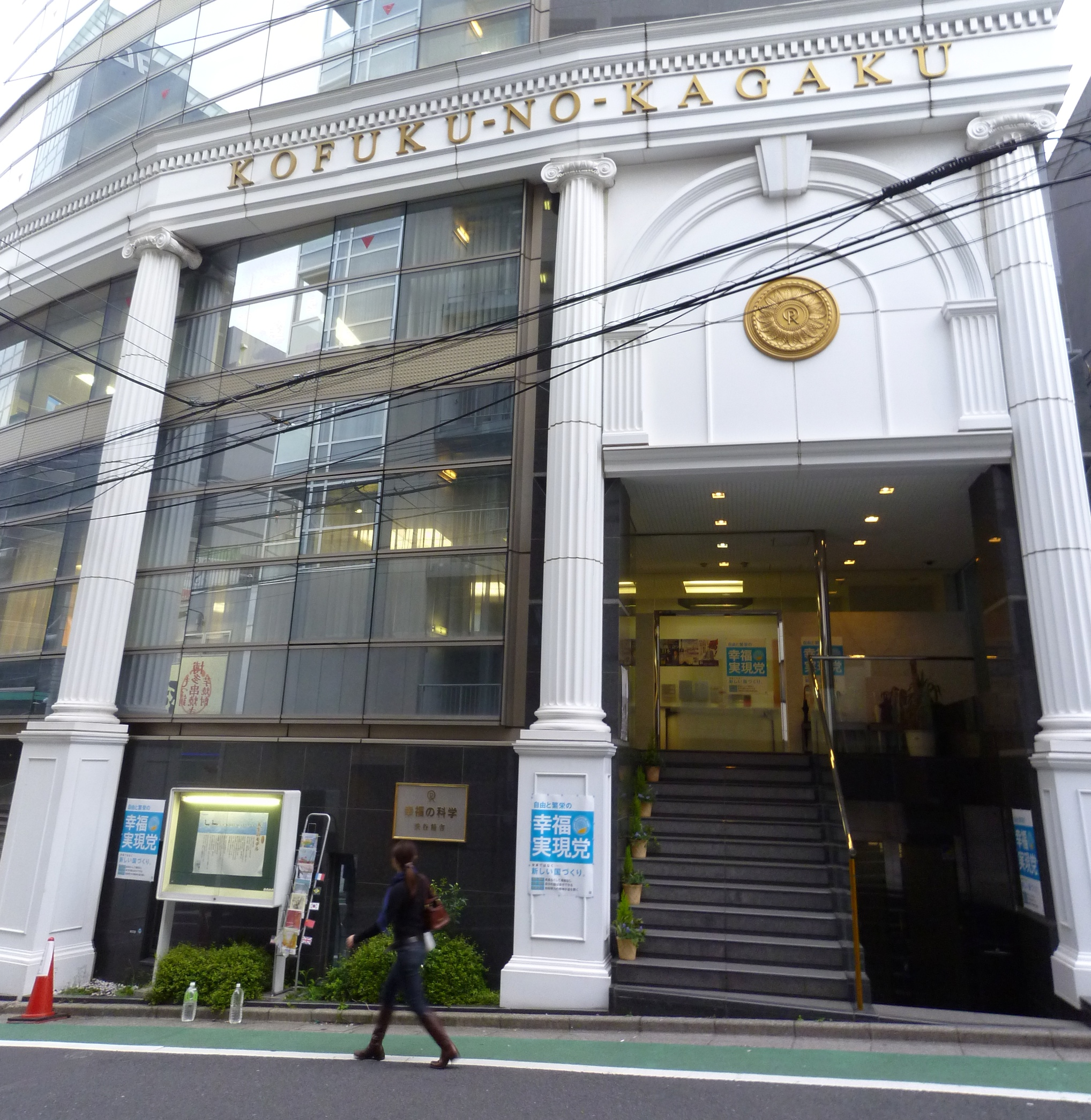 The Happiness Realization Party (幸福実現党, Kōfuku Jitsugen-tō?), abbreviated as 幸福,[1] is a Japanese political party founded by Ryuho Okawa on 23 May 2009 "in order to offer the Japanese people a third option" for the upcoming elections in August 2009. This is a picture of the headquarters in Shibuya. This was taken in May 2010.